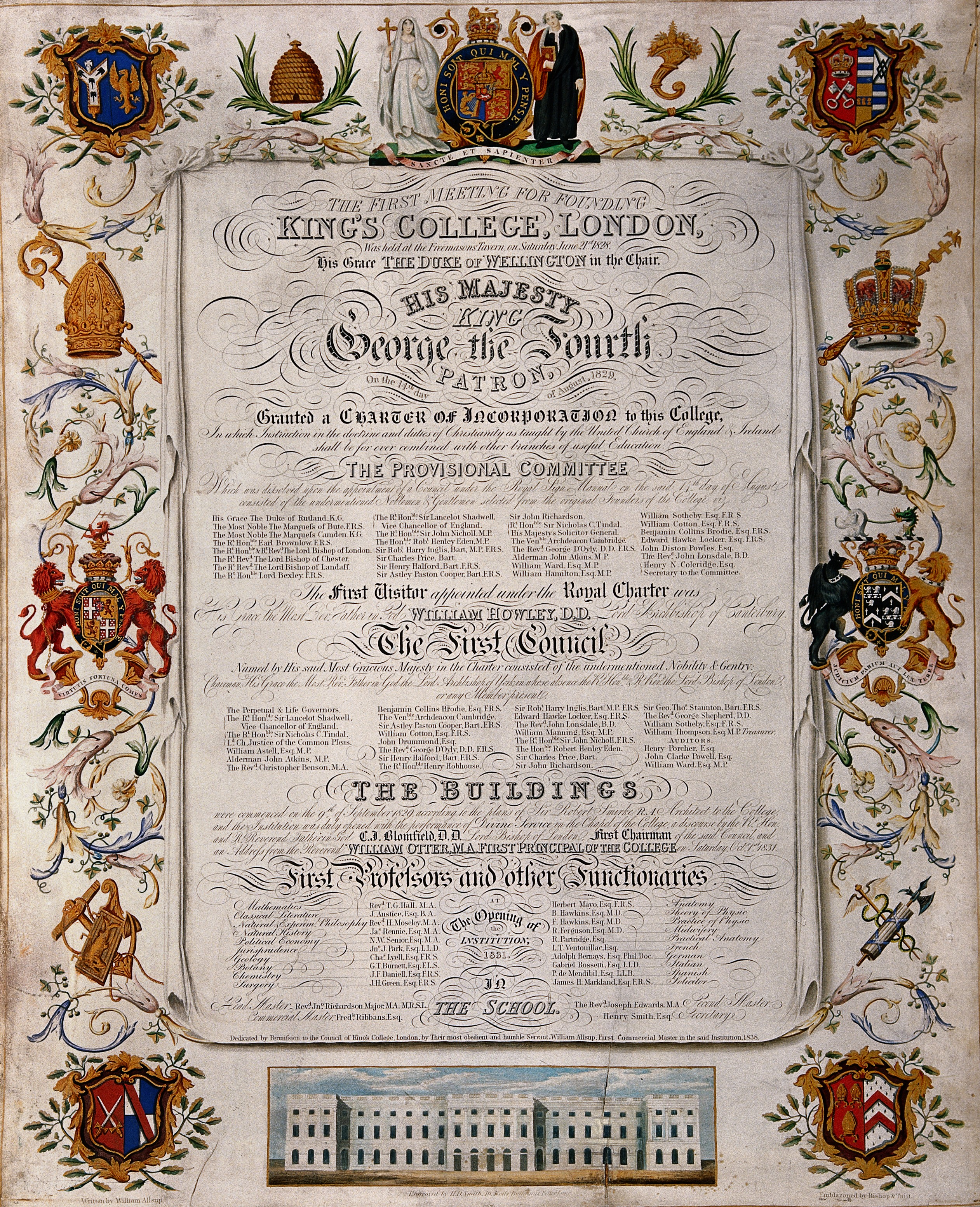 Charter of King's College, London. Coloured engraving by H.D. Smith, 1838. Iconographic Collections